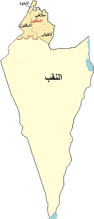 Naqab map